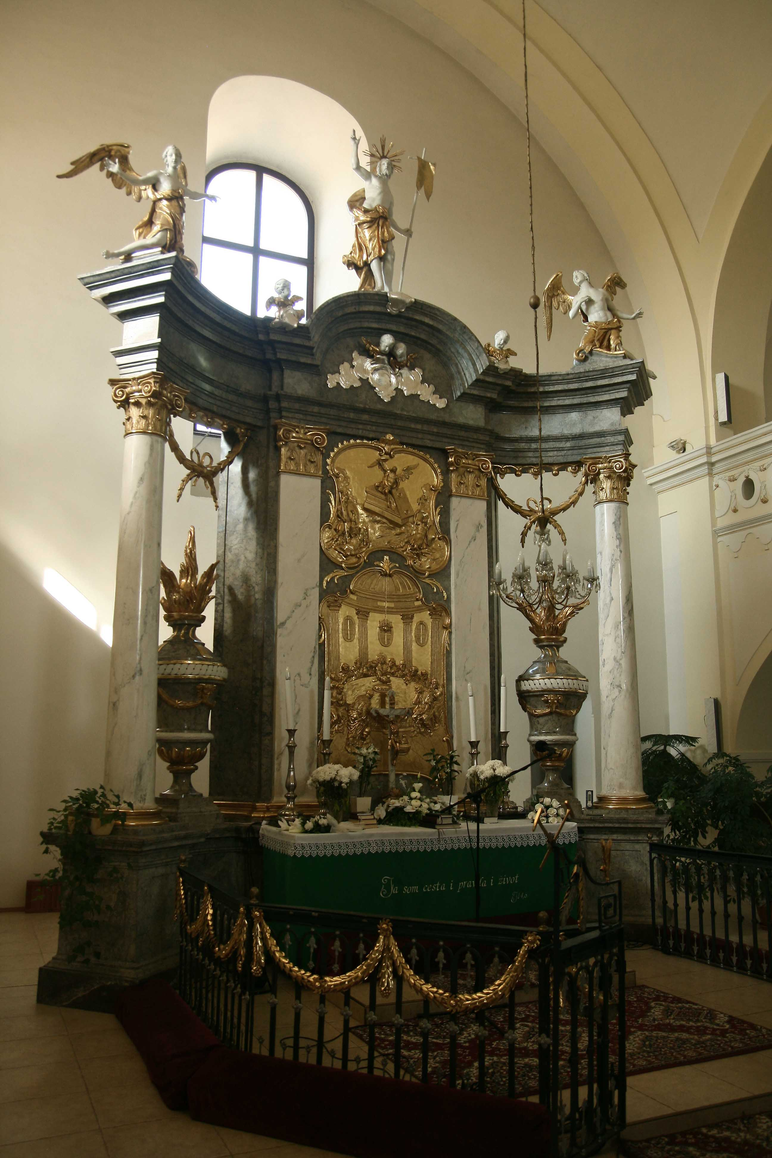 Altar in the Lutheran Church in Rožňava, Slovakia.